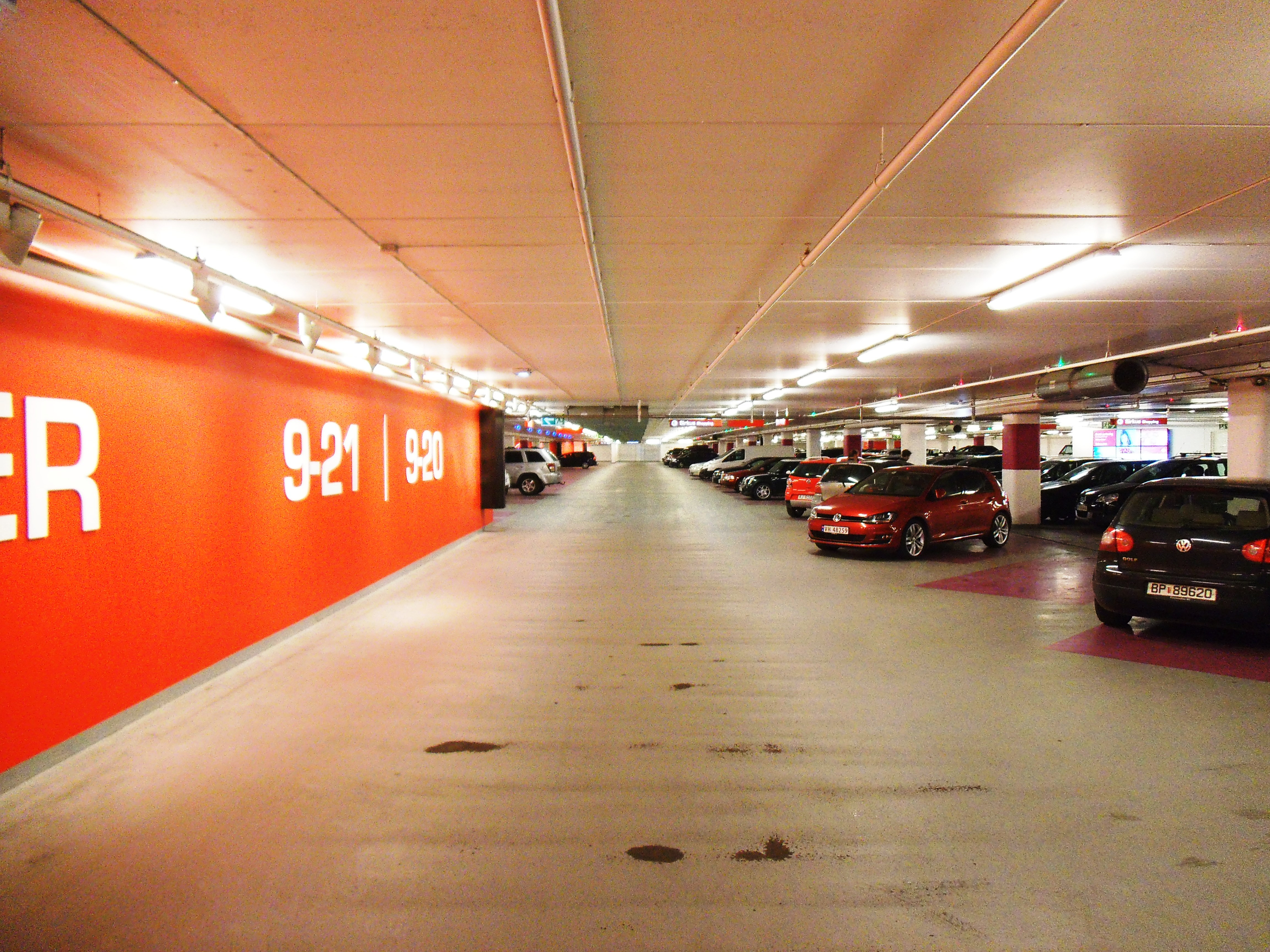 The parking garage of Sirkus Shopping, a shopping mall in Trondheim.